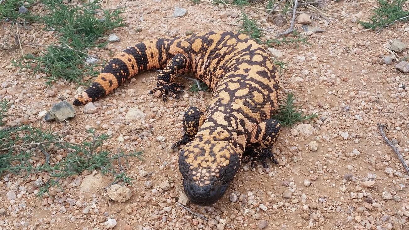 Gila Monster found in Southeastern Arizona